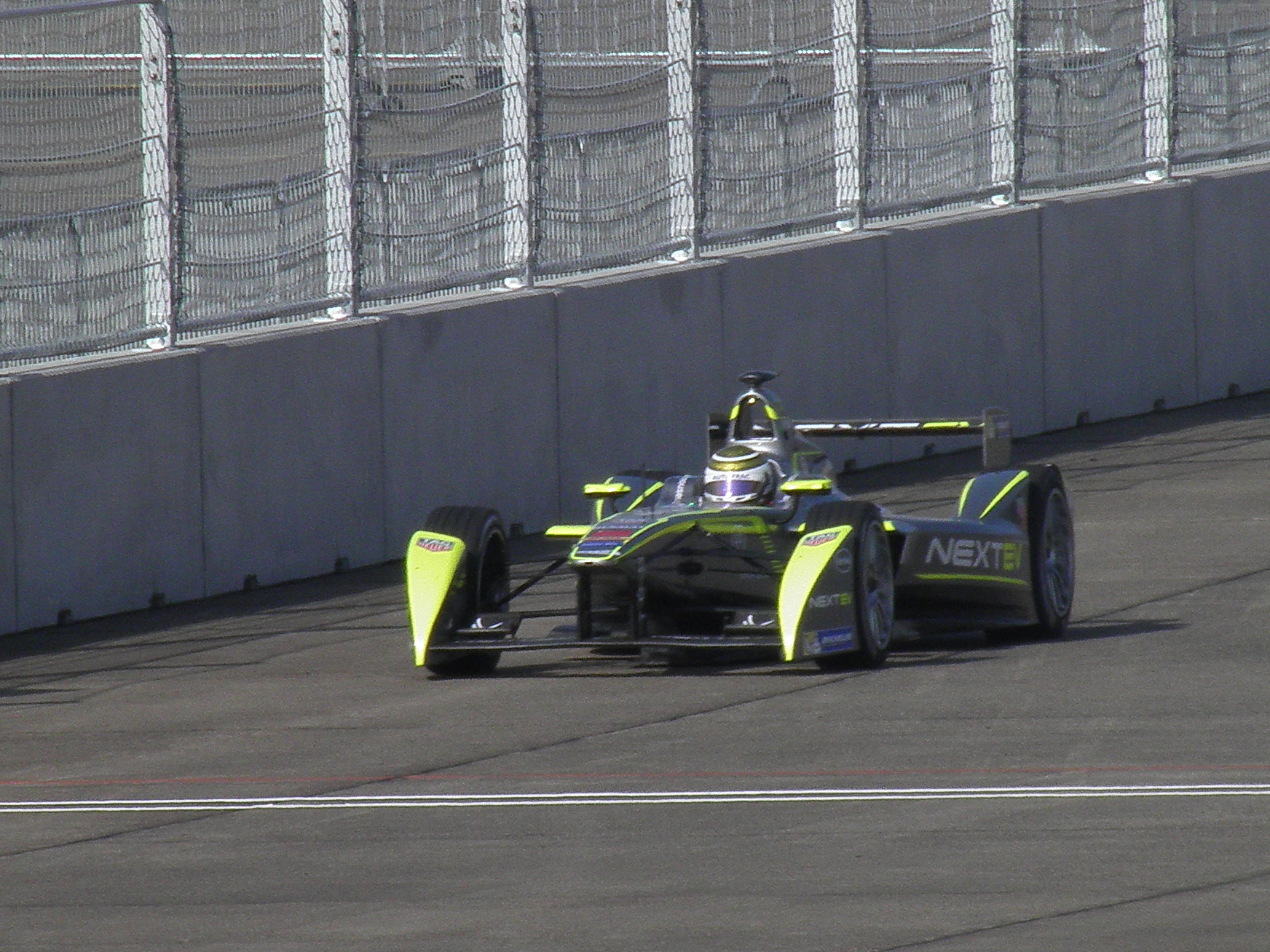 Nelson Piquet, NextEV TCR, driving in Berlin ePrix on May 23, 2015